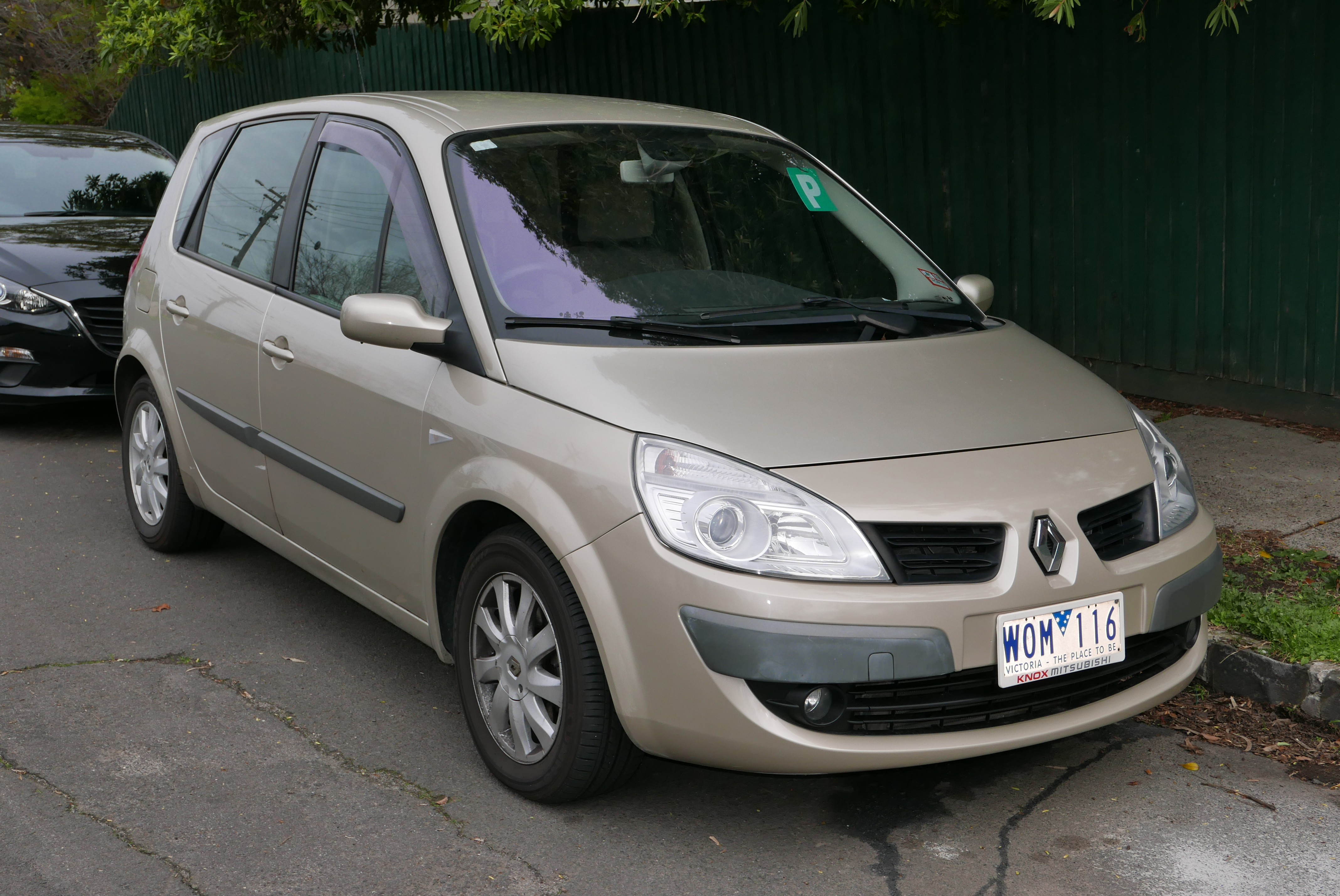 2008 Renault Scénic (J84 Phase 2) Expression dCi hatchback. Photographed in Brunswick East, Victoria, Australia. Vehicle registration enquiry results Jurisdiction Victoria Registration WOM116 Chassis code VF1JMS40A70647083 Engine code F9QJ803C012472 Compliance date 2008-07 Year of manufacture 2008